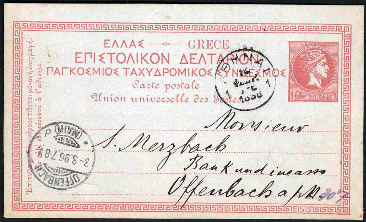 Postcard from Athens to Offenbach/Germany